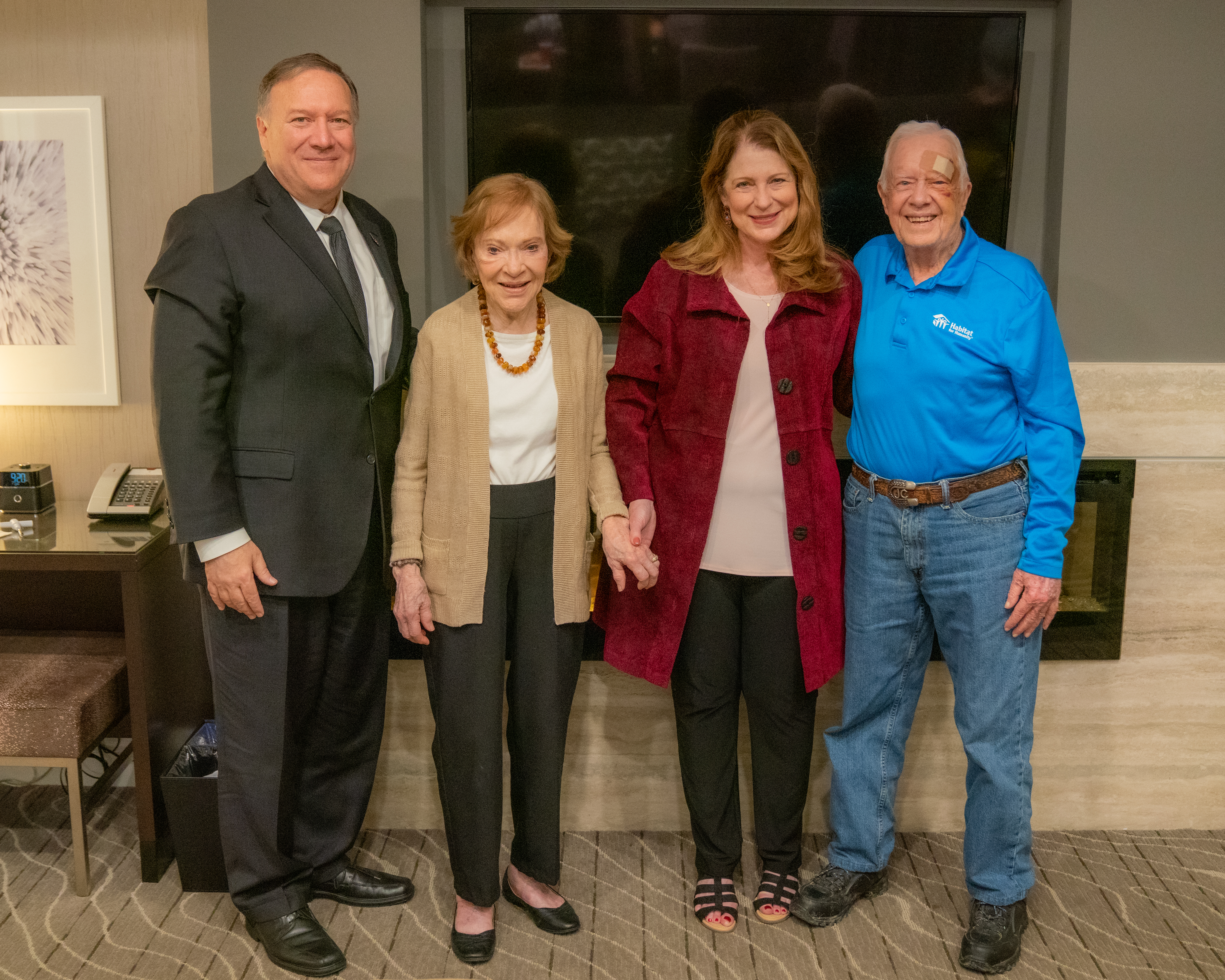 U.S. Secretary of State Michael R. Pompeo and Mrs. Susan Pompeo meet with former President Jimmy Carter and First Lady Rosalynn Carter in Nashville, Tennessee, October 12, 2019. [State Department photo by Ron Przysucha/ Public Domain]